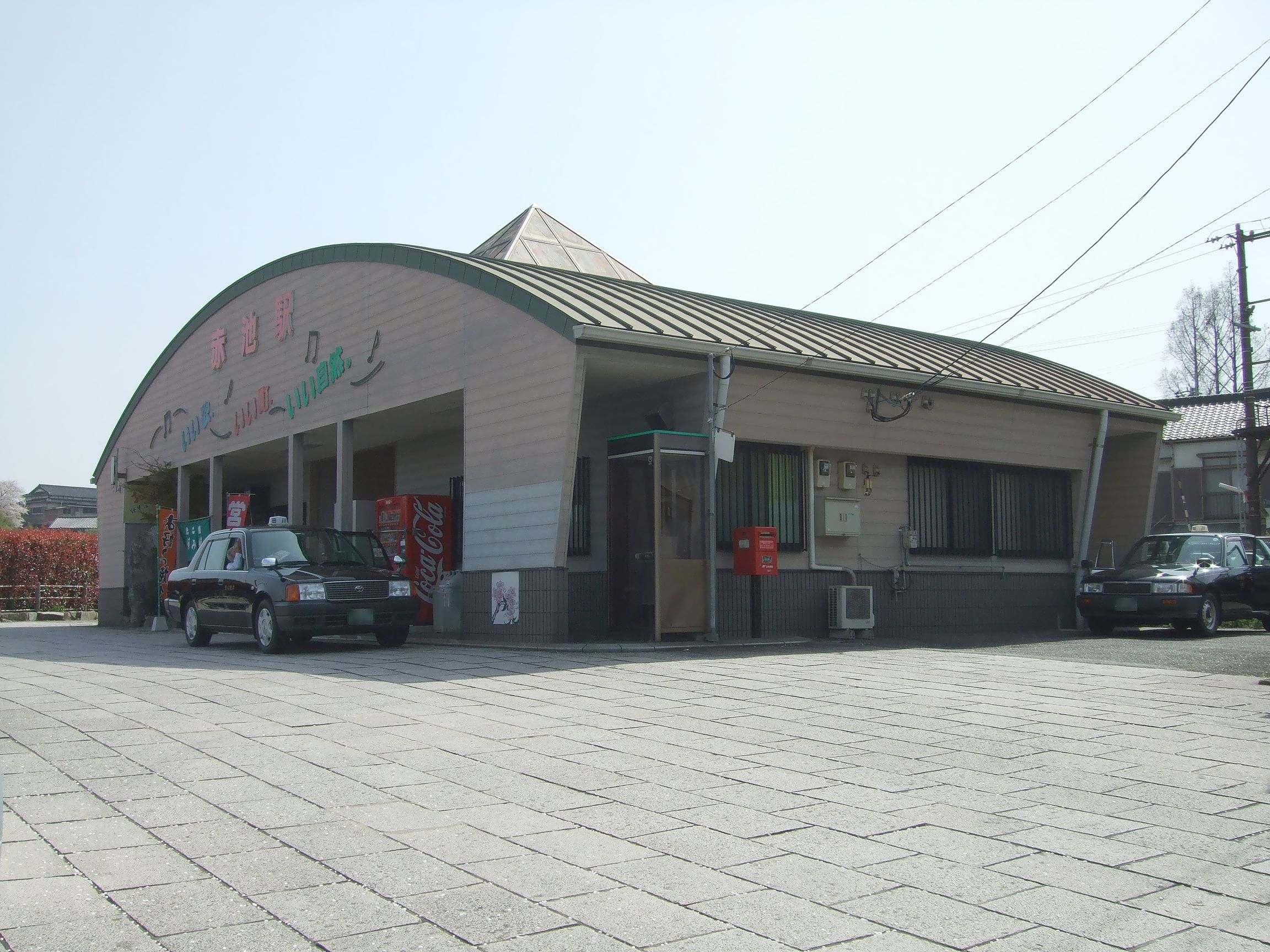 Akaike Station, Ita Line, Heisei Chikuho Railway, Fukuchi Town, Fukuoka, Japan.